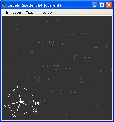 Screenshot of GGobi, showing the cube-6 dataset